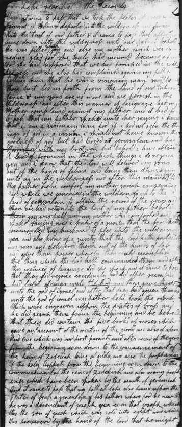 A page from the original Book of Mormon manuscript, covering 1 Nephi 4:38-5:14